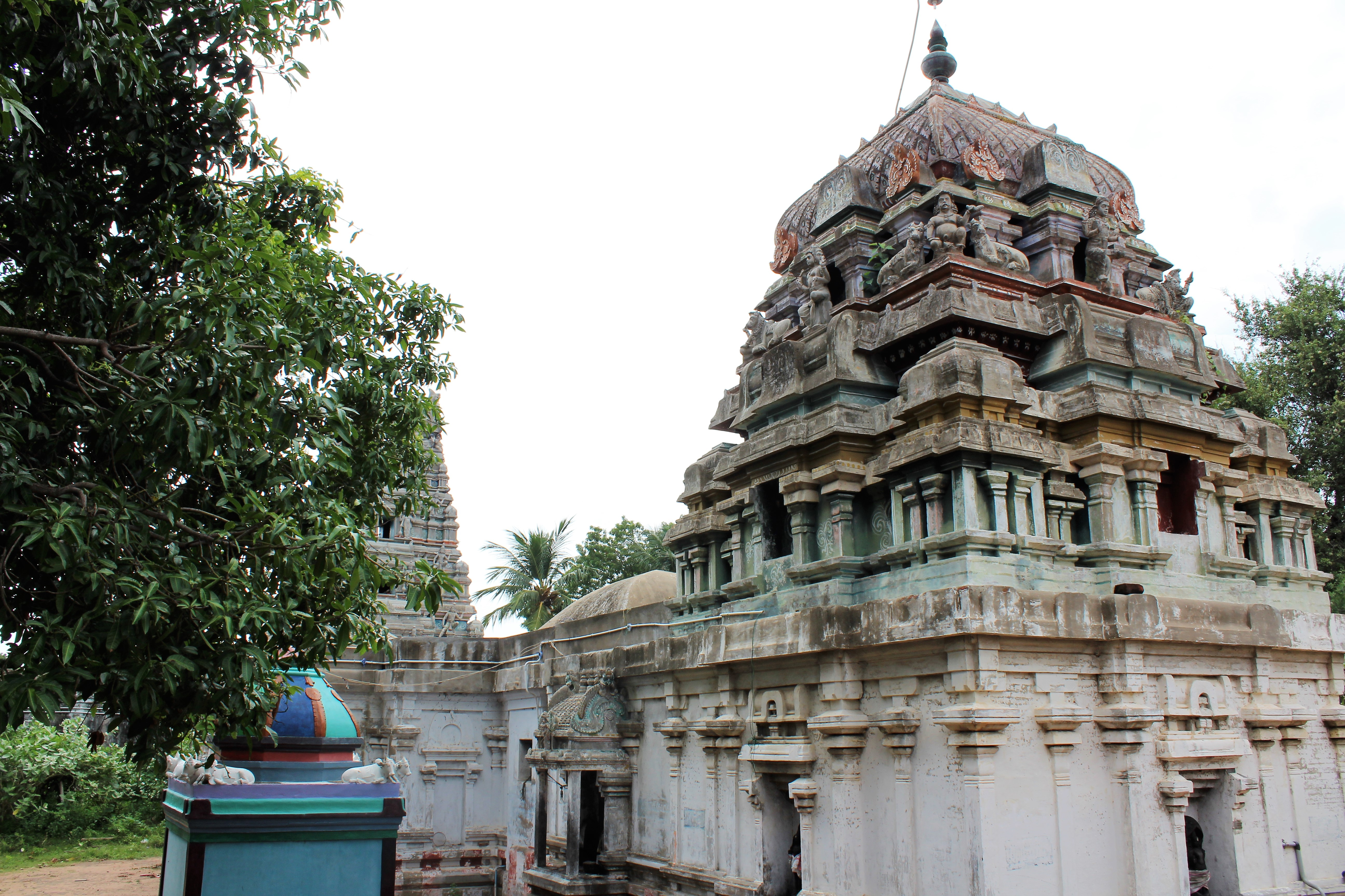 Thirukkumaresar Temple